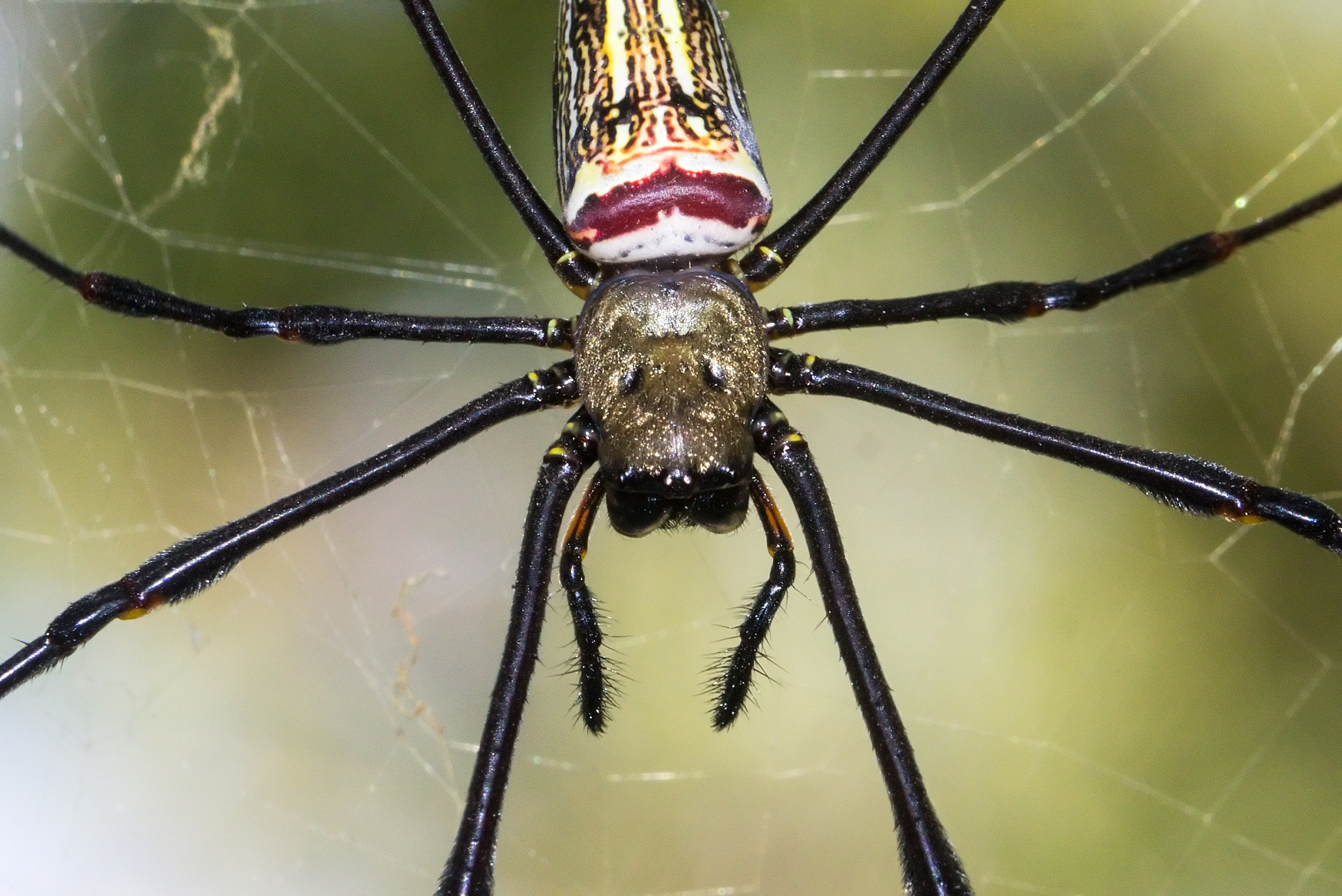 Nephila pilipes, Bangunjiwo, Bantul 2015-09-19